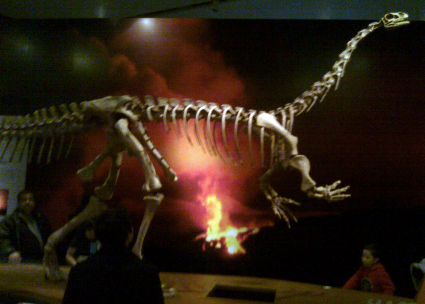 Photo taken at the Royal Ontario Museum from the "Ultimate Dinosaur: Dinosaurs of Gondwana" special exhibit of a fossil replica skeleton of a Massospondylus, a late Triassic Prosauropod, a bipedal ancestor of the long-necked sauropods.